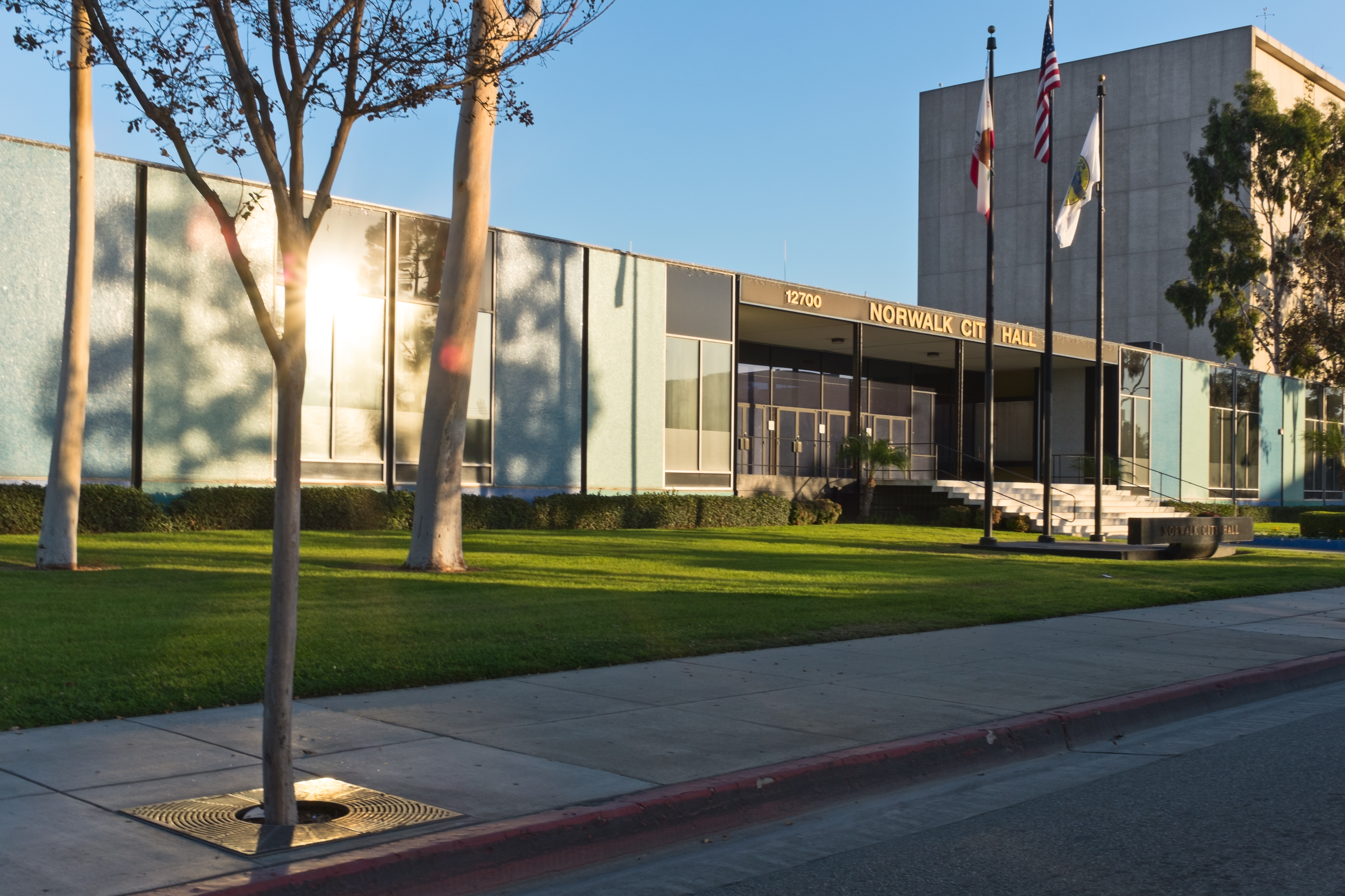 Norwalk City Hall, 12700 Norwalk Bvld, Norwalk, CA 90650